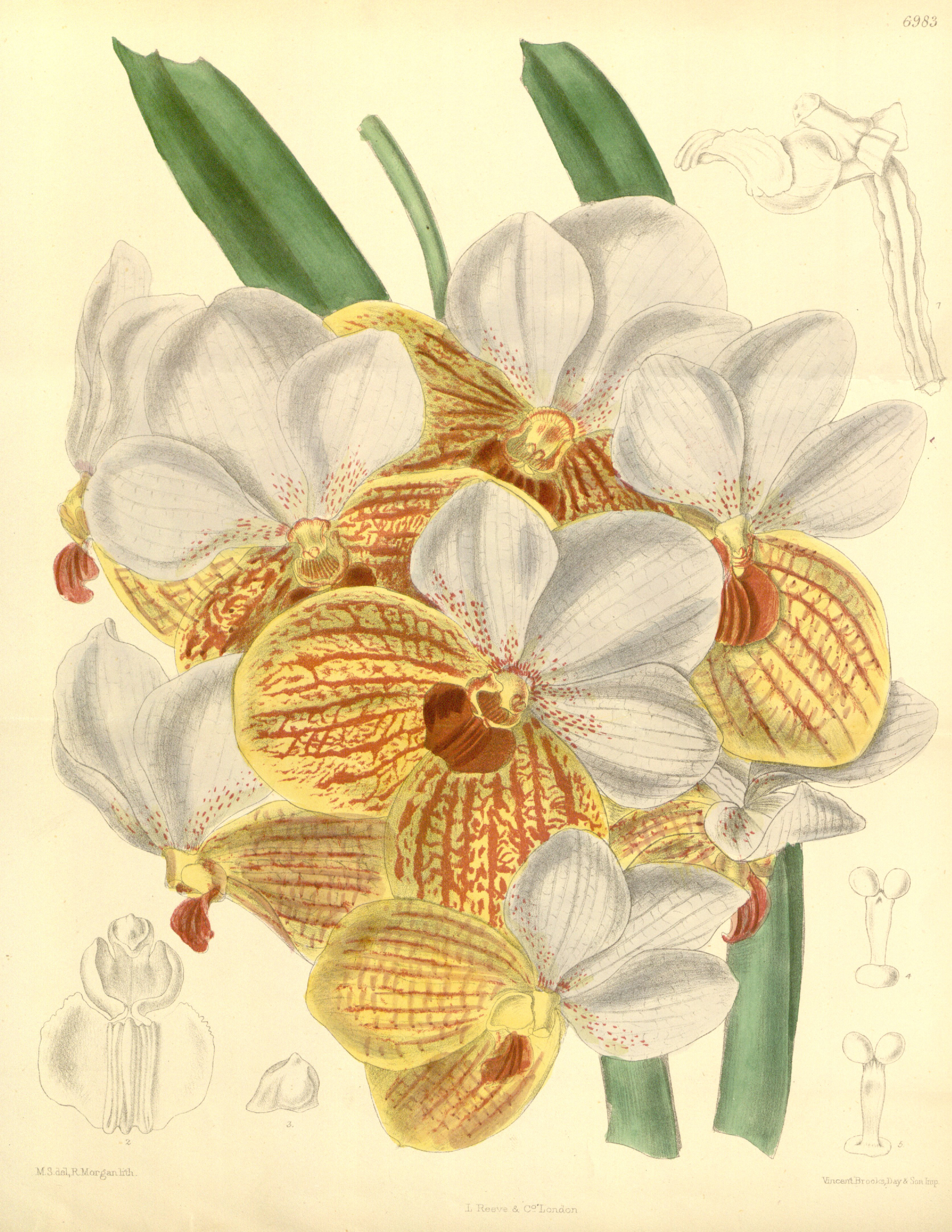 Illustration of Euanthe sanderiana (as syn. Vanda sanderiana)